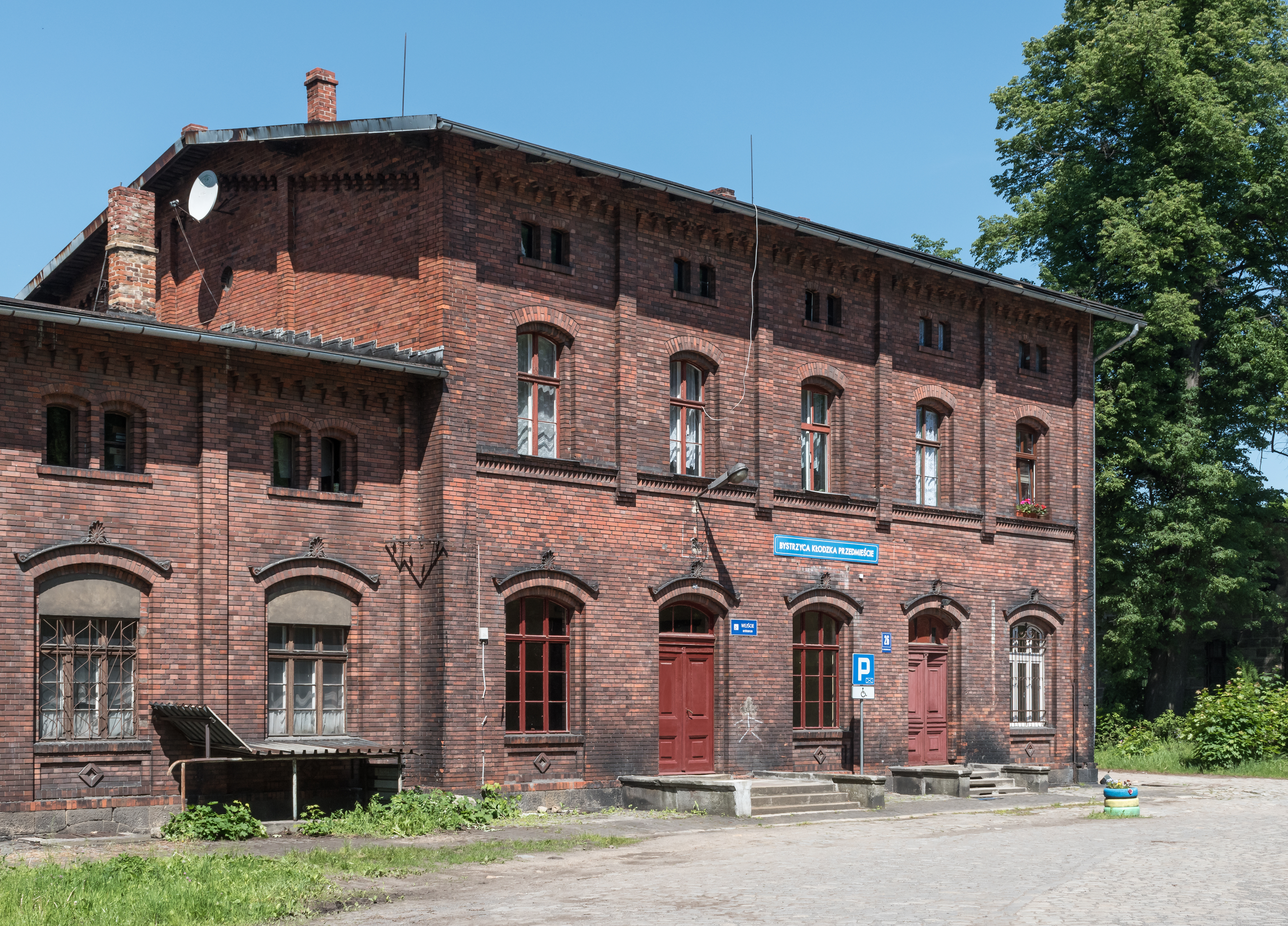 Train station Bystrzyca Kłodzka Przedmieście